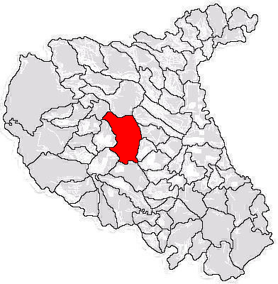 Map of limits of commune in Vrancea County